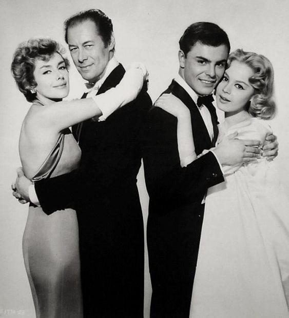 L. to R. : Kay Kendall, Rex Harrison, John Saxon, and Sandra Dee in The Reluctant Debutante (1958) - publicity still.